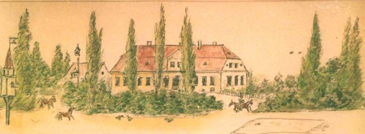 Manor in Baranowo (before 1945 Dominium Baranowen in East Prussia